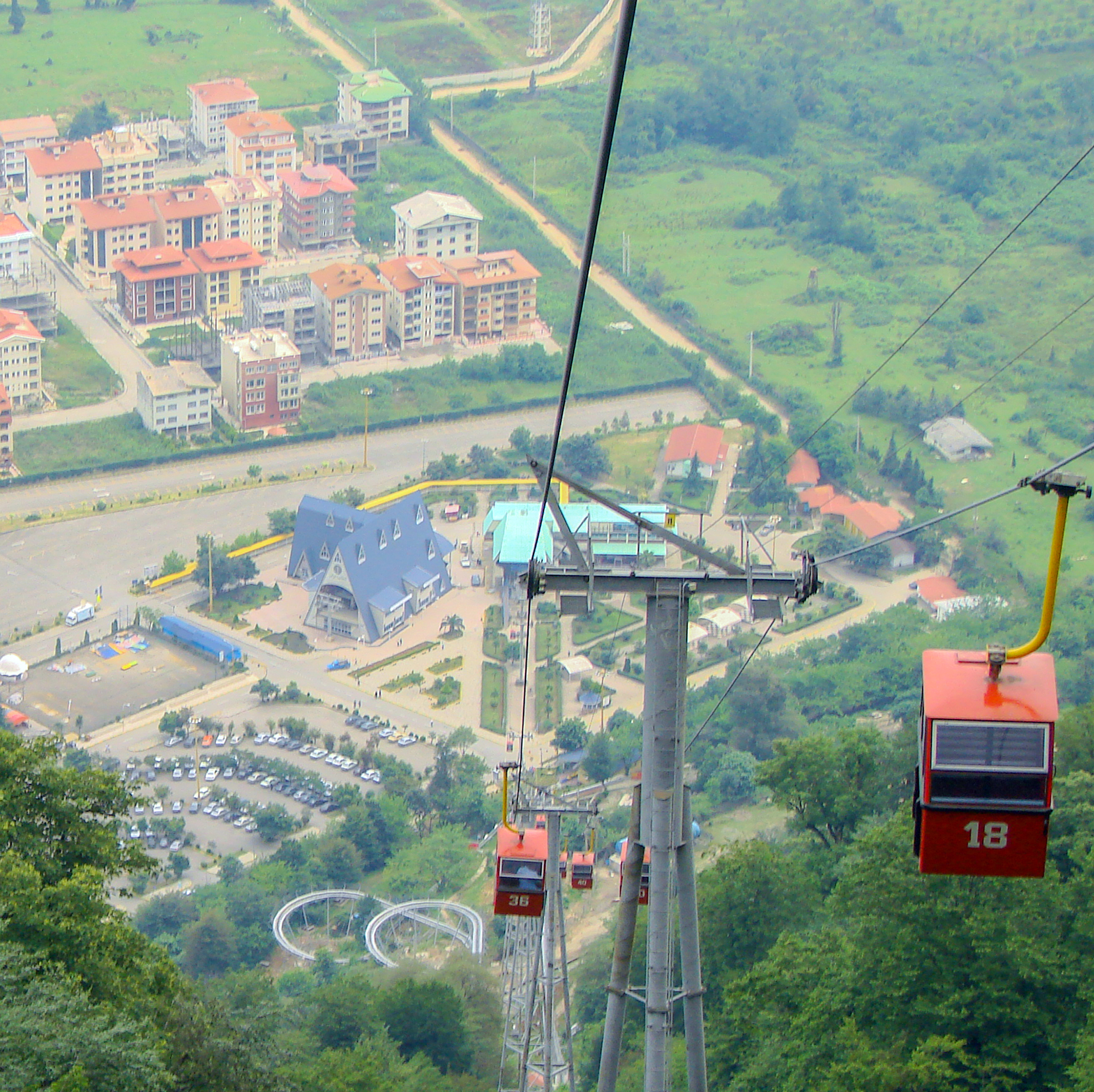 Shahrak-e Namak Abrud is a touristic village and has an aerial tramway which starts at the sea level near the shores of the Caspian Sea and ends on the top of the Alborz heights crossing dense forest area of northern Iran. There are numerous villa cities around it which form a vacation region for the people of Tehran.